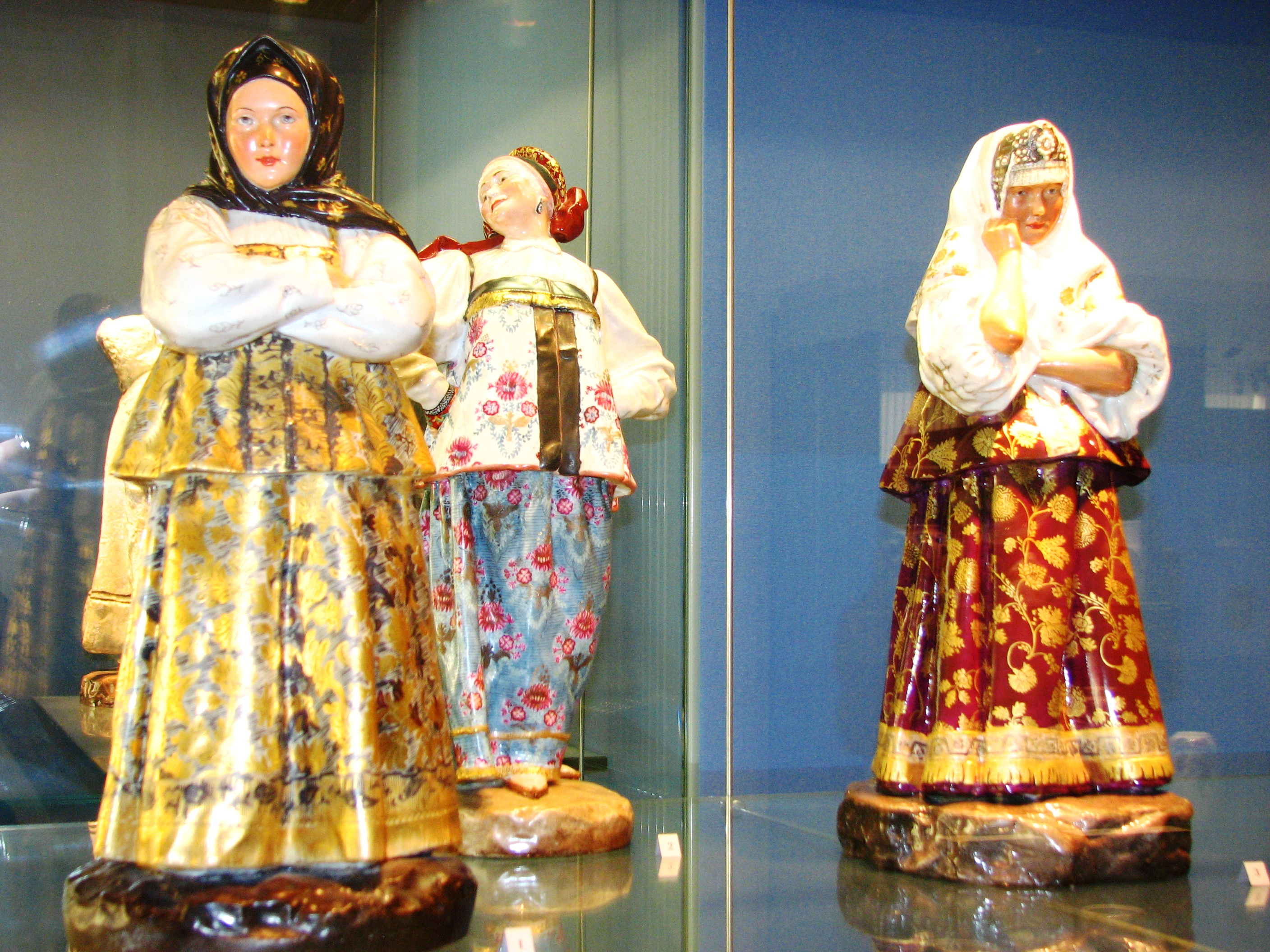 St.Petersburg. The Museum of the Imperial Porcelain Factory. Sculptures from the series "Peoples of Russia." Left: "Arkhangelsk woman." In the center: "Woman of the Saratov Governorate." Right: "Olonets woman." Models by P.P. Kamensky (1858-1922). Imperial Porcelain Factory, Russia. 1907-1917 gg. Porcelain, polychrome overglaze painting, gilding, silvering, platinum lustre, tooled.